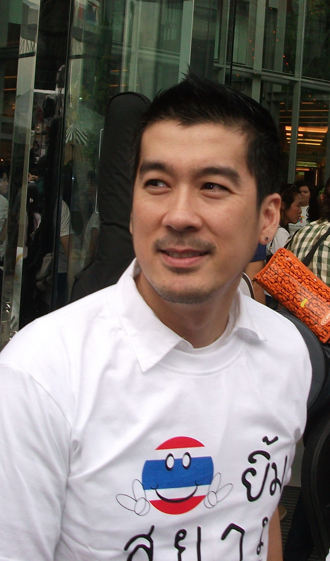 Phol Tantasathien at Parc Paragon, Siam Paragon, Bangkok.